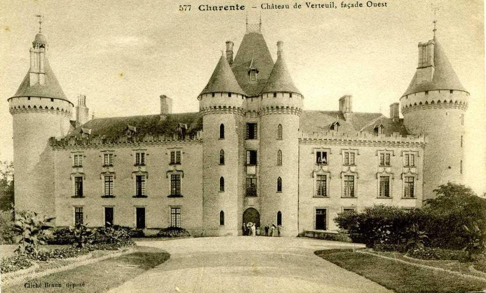 Verteuil castle